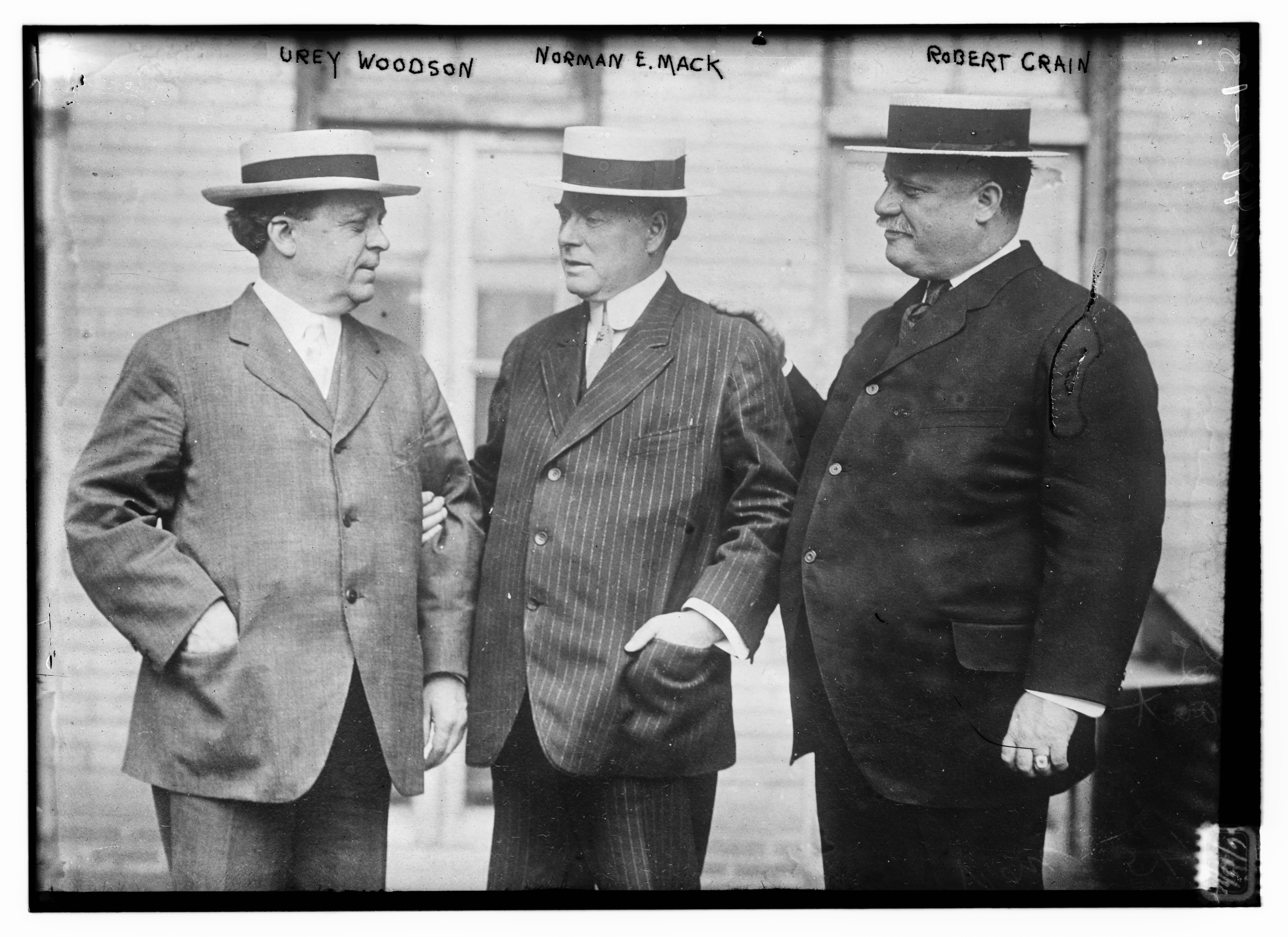 Bain News Service,, publisher. Urey Woodson, Norman Edward Mack, and Robert Crain [between 1910 and 1915] 1 negative : glass ; 5 x 7 in. or smaller. Notes: Title from unverified data provided by the Bain News Service on the negatives or caption cards. Forms part of: George Grantham Bain Collection (Library of Congress). Format: Glass negatives. Repository: Library of Congress, Prints and Photographs Division, Washington, D.C. 20540 USA, General information about the Bain Collection is available at Persistent URL: Call Number: LC-B2- 2492-13